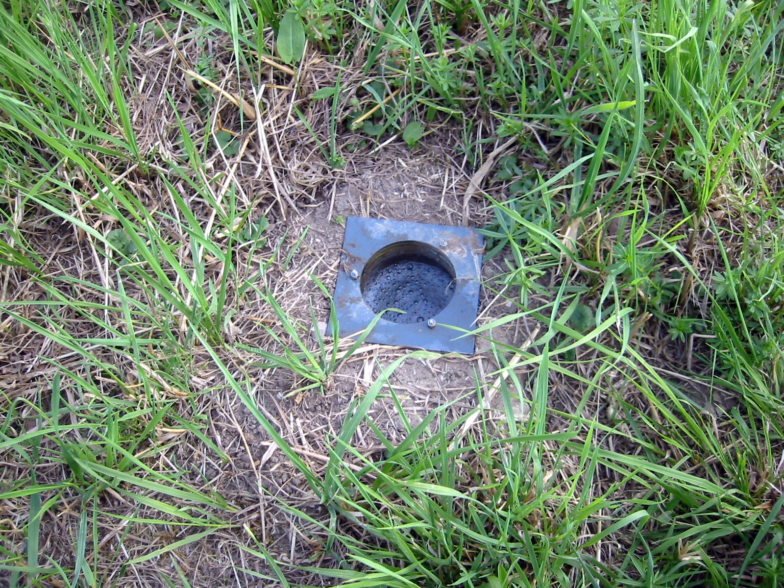 a trap for collecting ground beetles, build from a honey glass and a gapped blanking cover